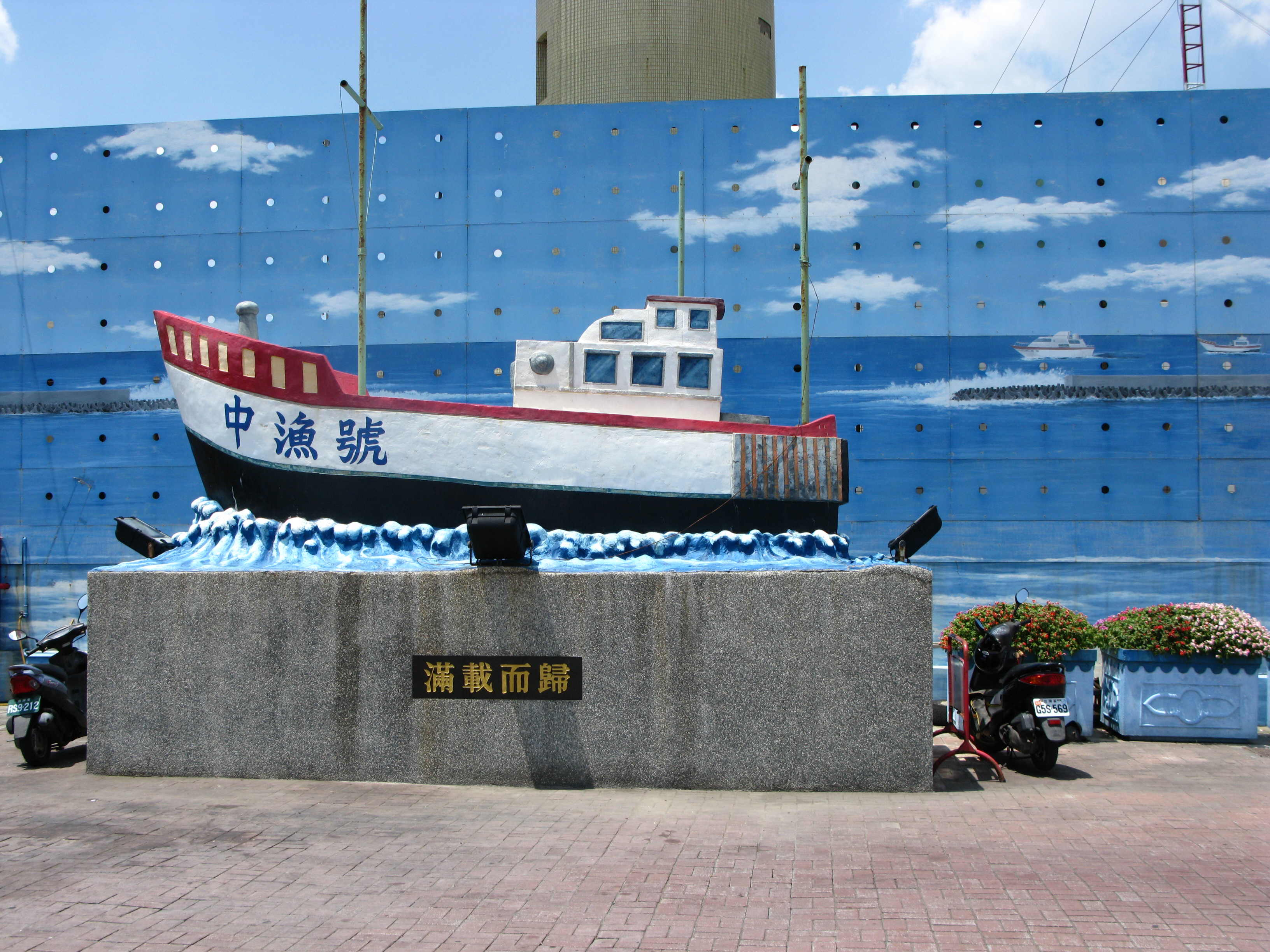 Taiwan Wuci Fishery Harbor